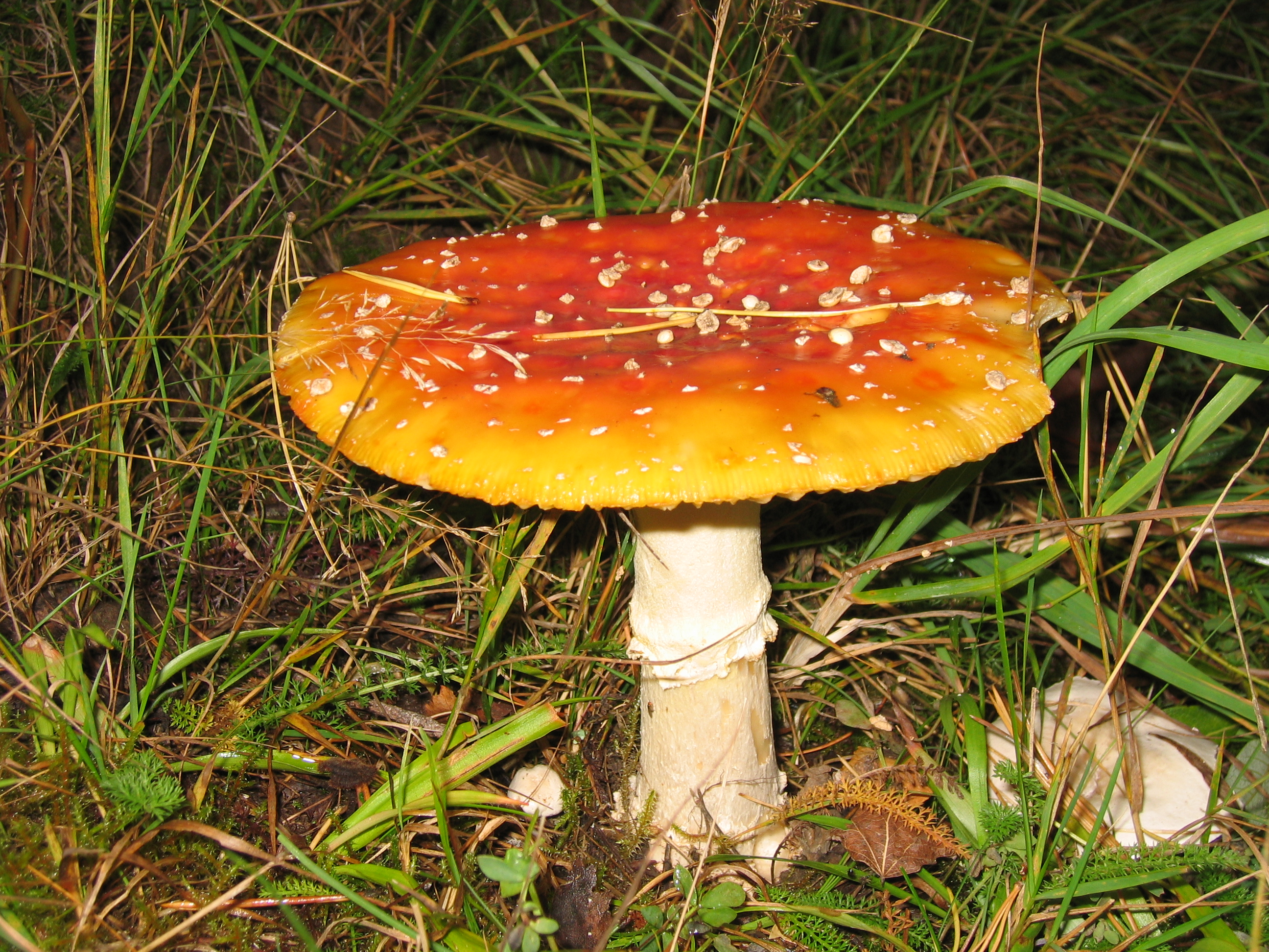 A Speciment of Amanita muscaria found in Bymarka outside of Trondheim, Norway.